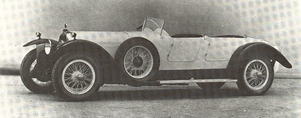 Austro-Daimler ADM 3 litre Sports Car 4 seats (1927)